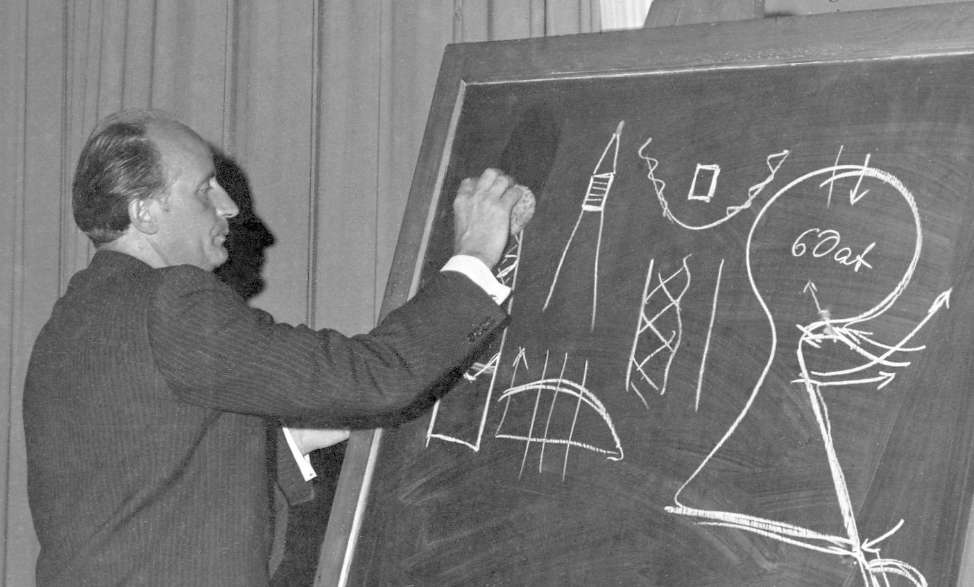 Helmut Gröttrup explaining the principles of rocket technology